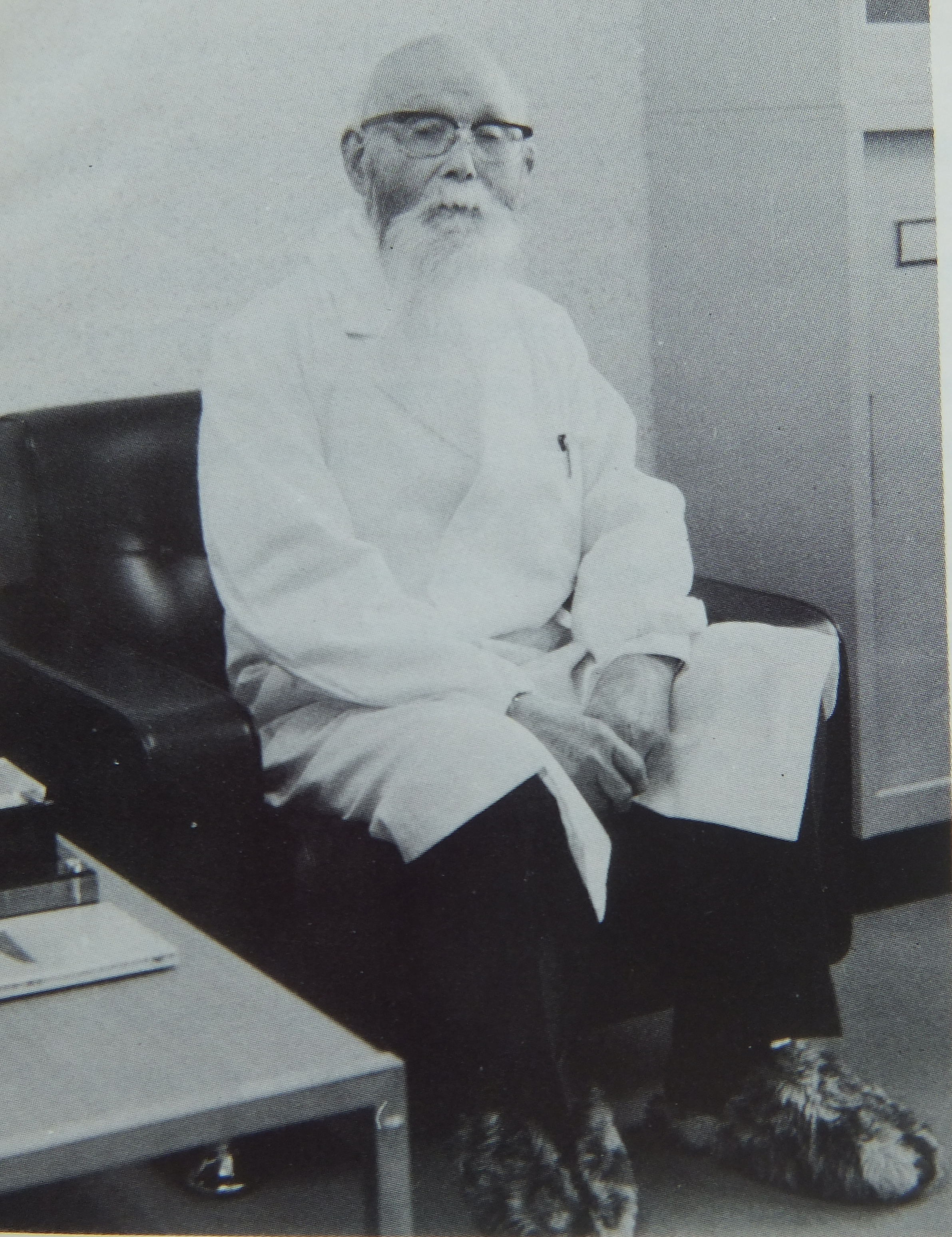 Hara Shimetarō (原 志免太郎, 1882-1991), a Japanese physician and pioneer in modern medical research on moxibustion. Foto made in 1982 at the occasion of his 100th birthday.